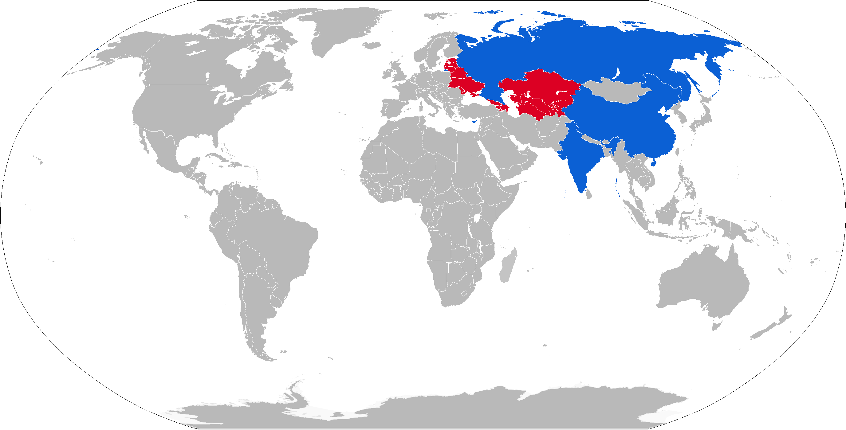 Map with 9M119 operators in blue and former operators in red